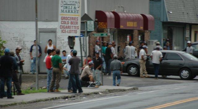 August 5, 2006, day laborers on Marvin Avenue in Brewster.